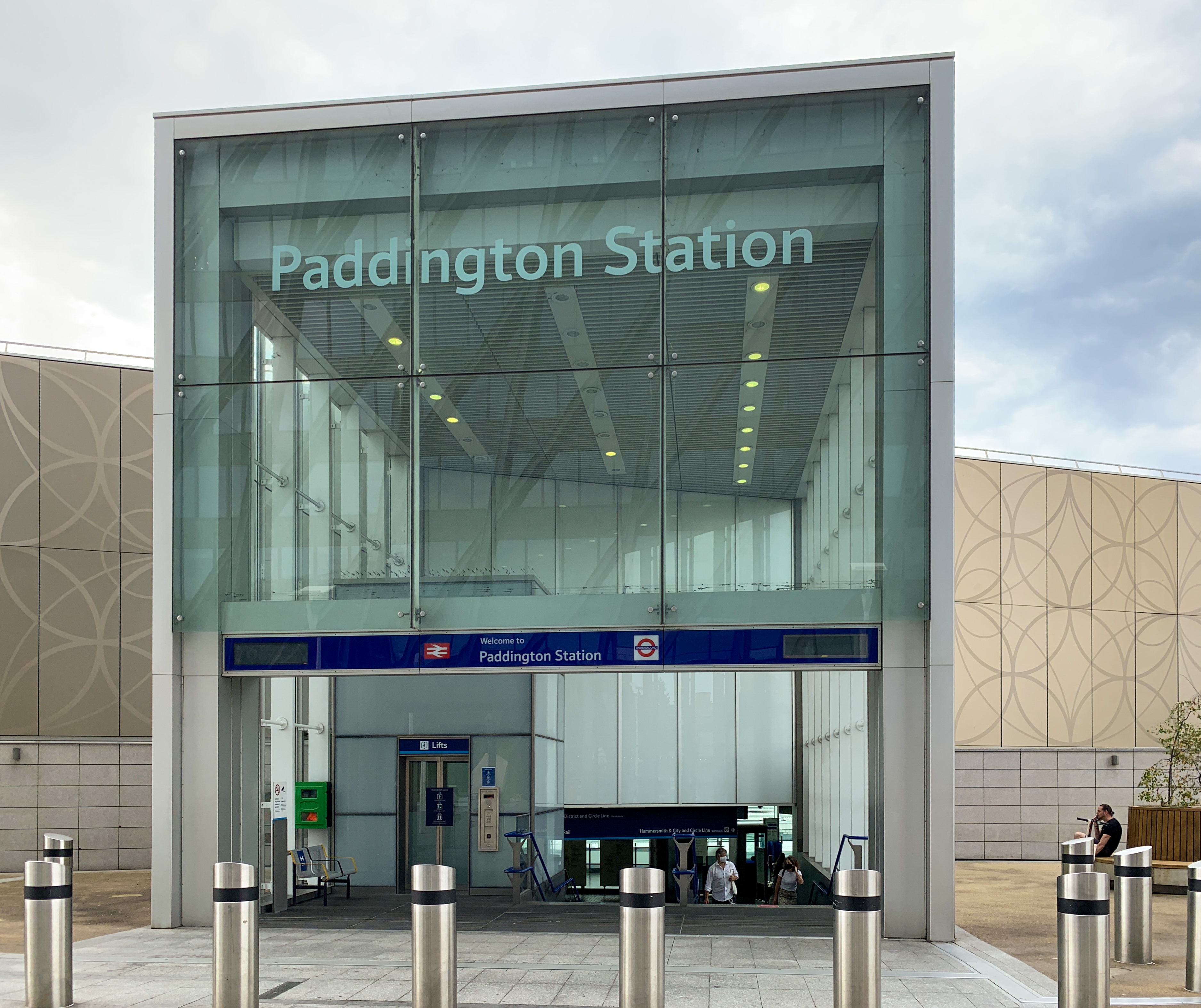 Entrance to Paddington Station and Paddington (Bishop's Road) tube station. Taken during my Circle Line Tube Walk.